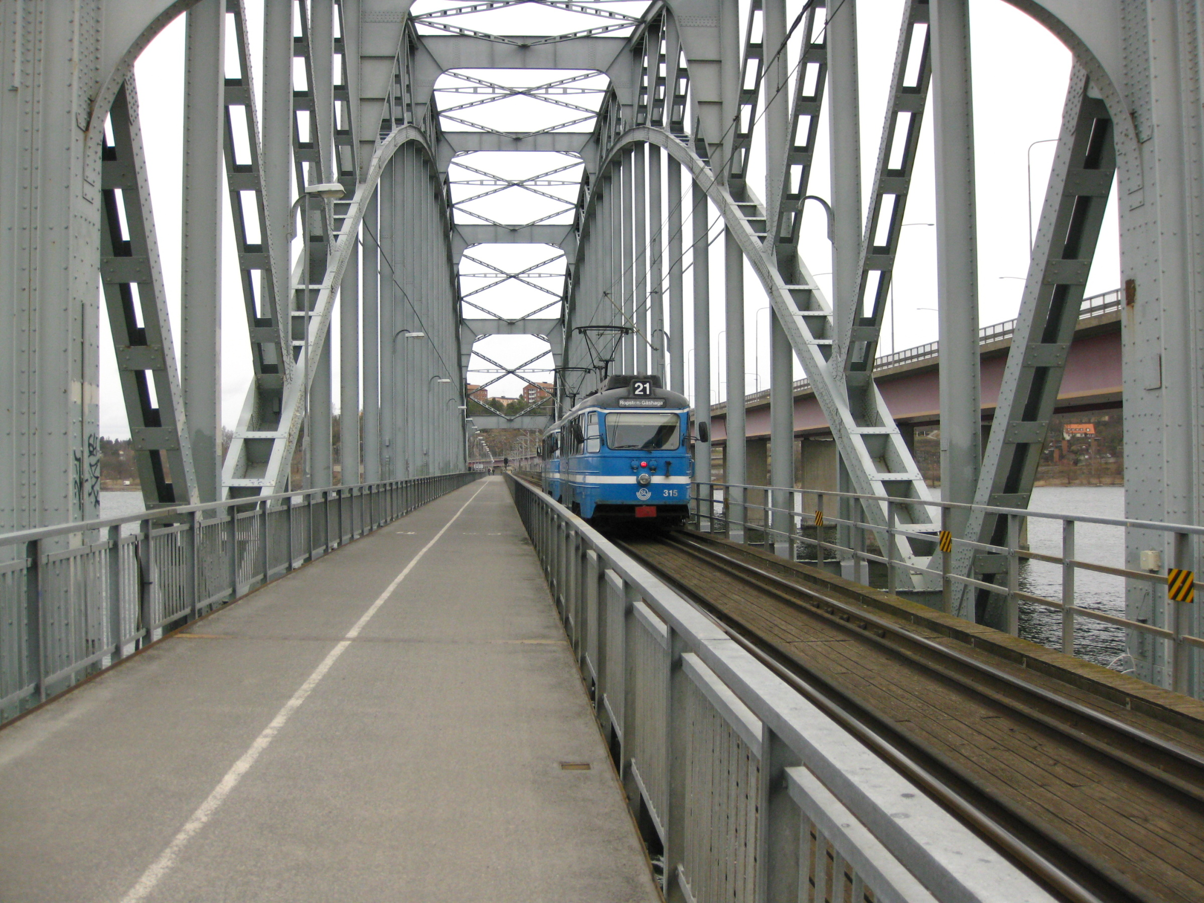 A tram-car on Lidingöbanan passing Lidingöbron.